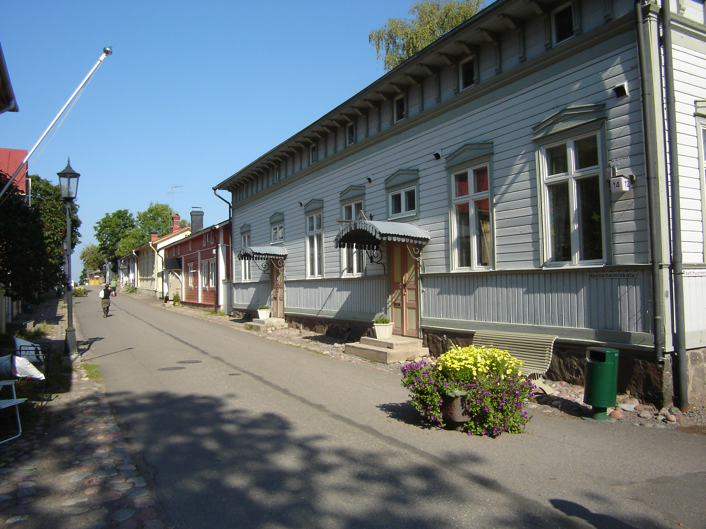 Wooden house in the Old Town of Naantali (Mannerheiminkatu/Raatihuoneenkatu)